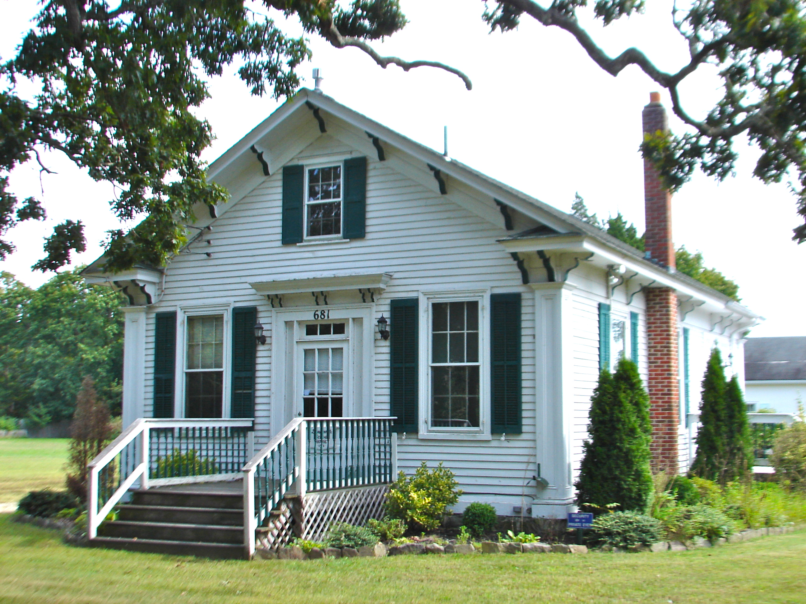 Dennisville Historic District Shoolhouse built 1874 in Dennisville, New Jersey. Part of the historic district on the NRHP.